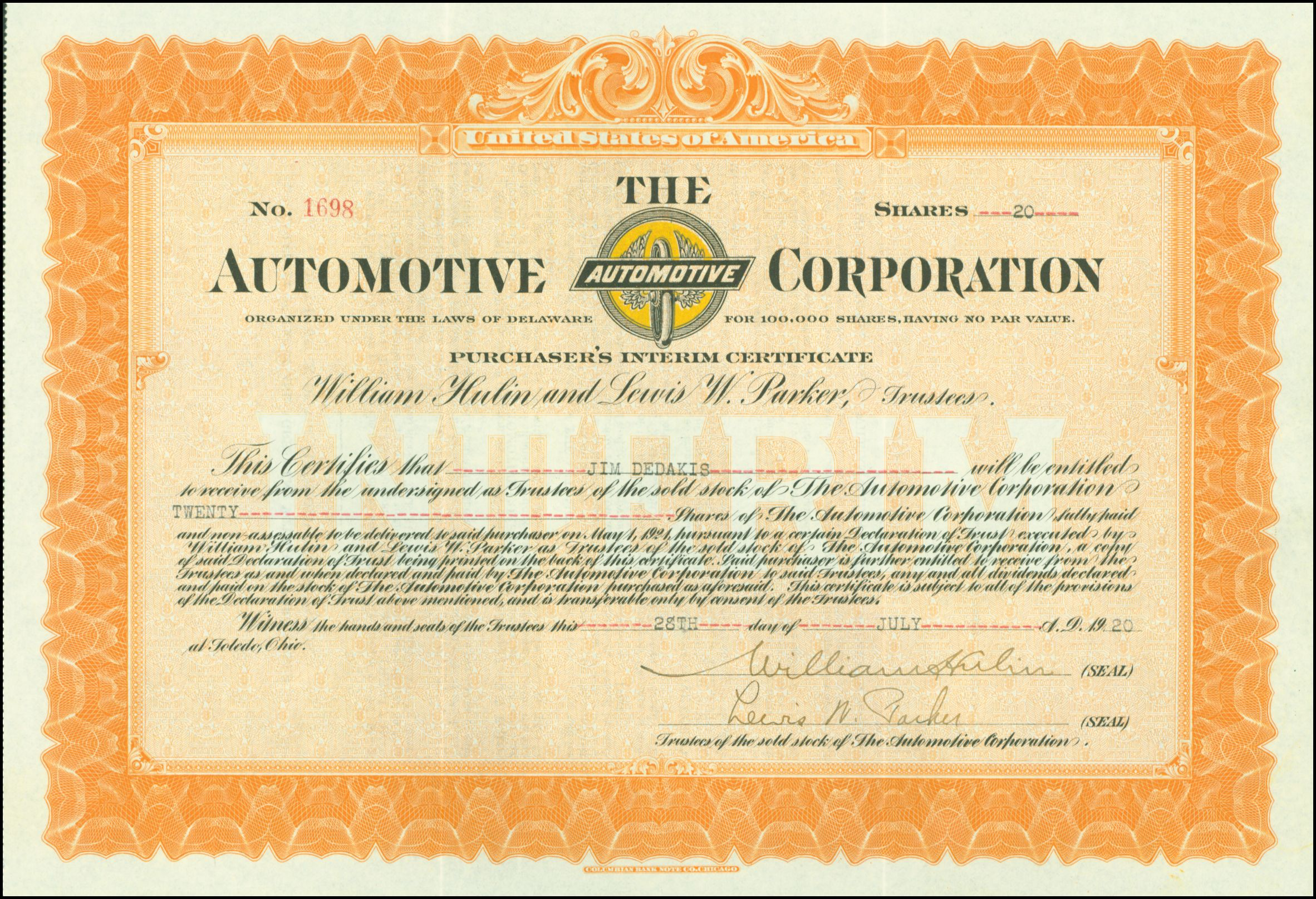 Share of the Automotive Corporation, issued 28. July 1920